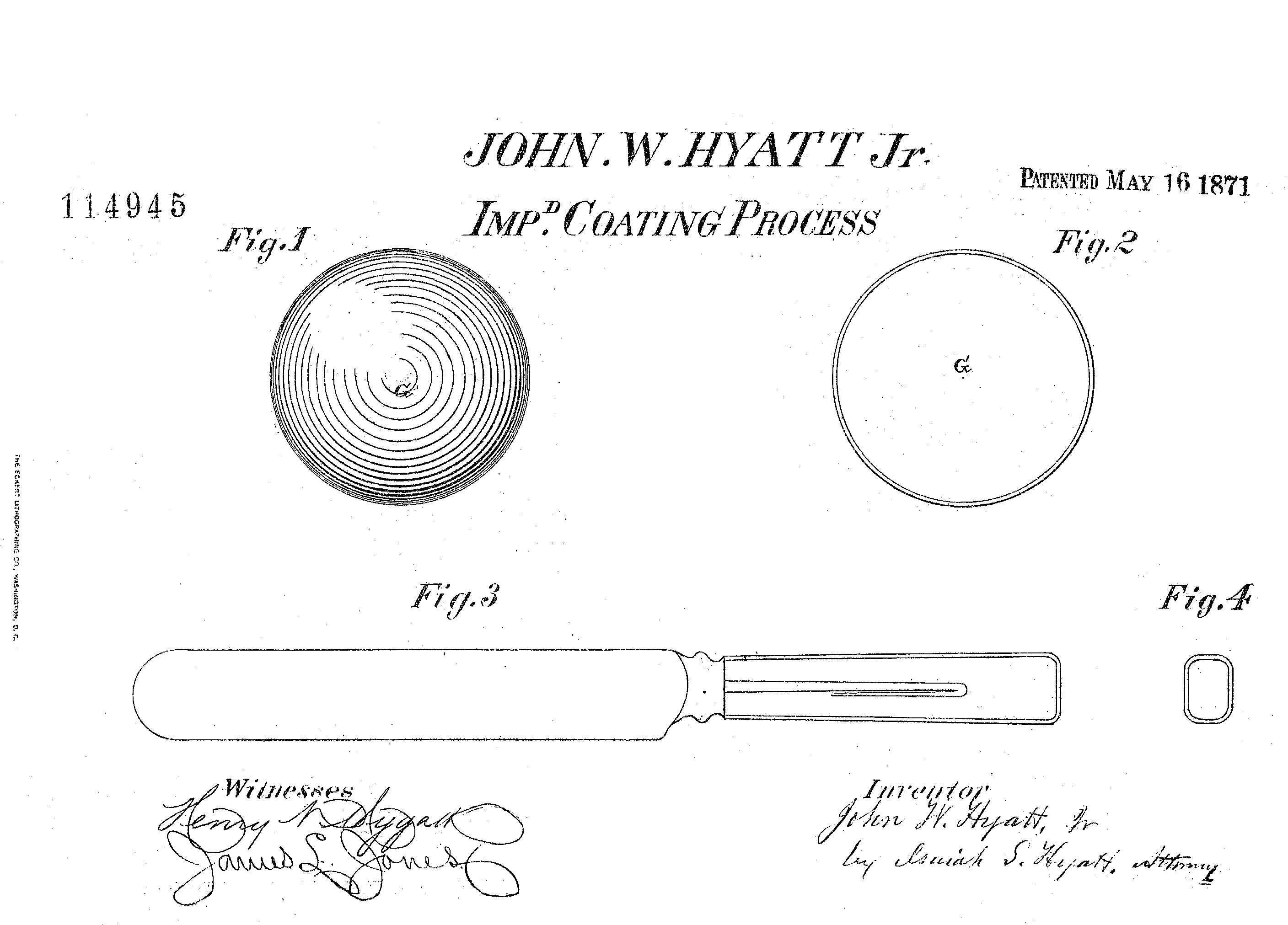 Fig 1- The images shows billard ball made from celluloid Fig 2 - Cross section of billard balls Fig 3 - Injection moulding apparatus Fig 4 - Front view of injection moulding apparatus